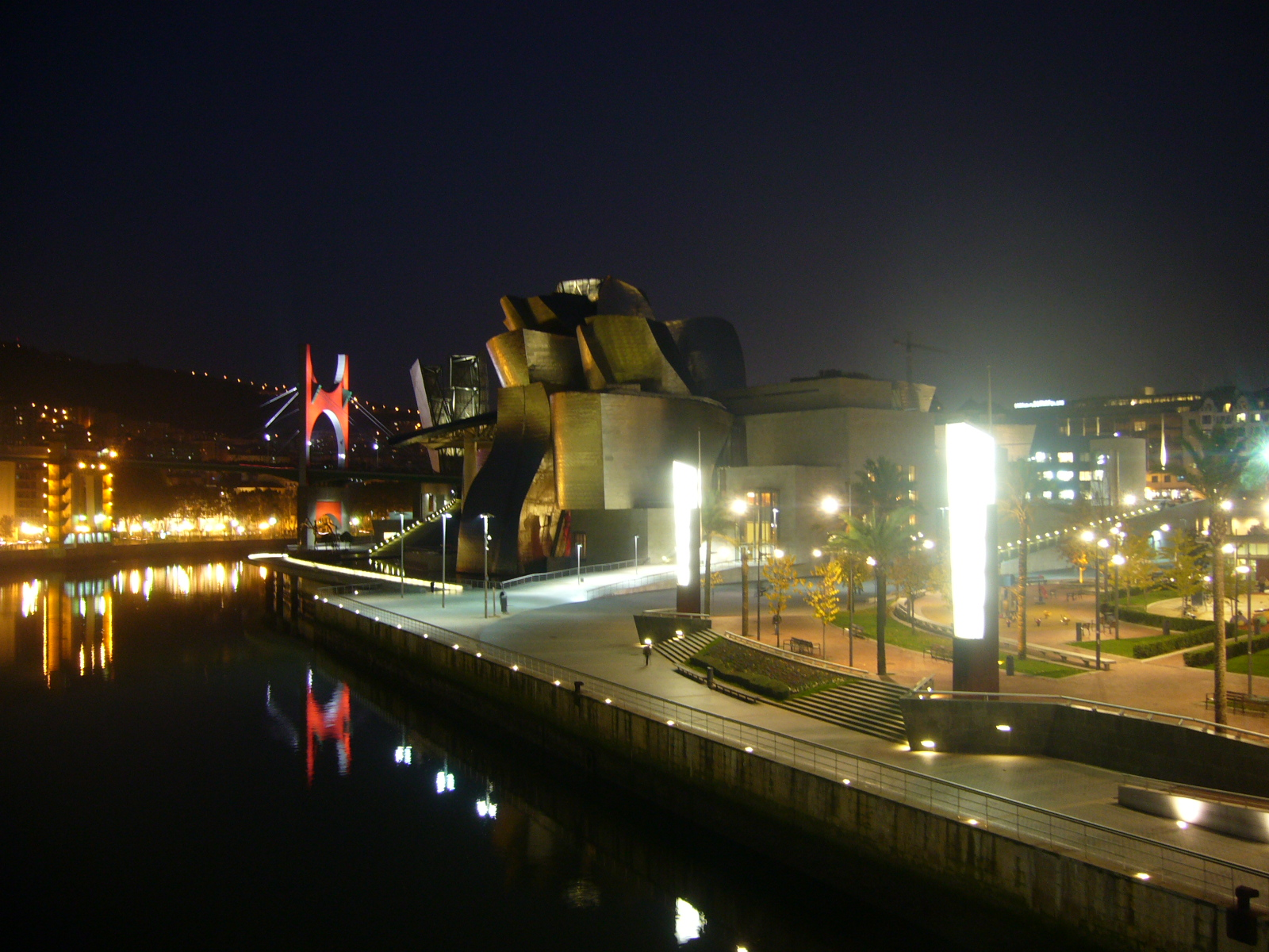 Guggenheim Bilbao Museum at night.